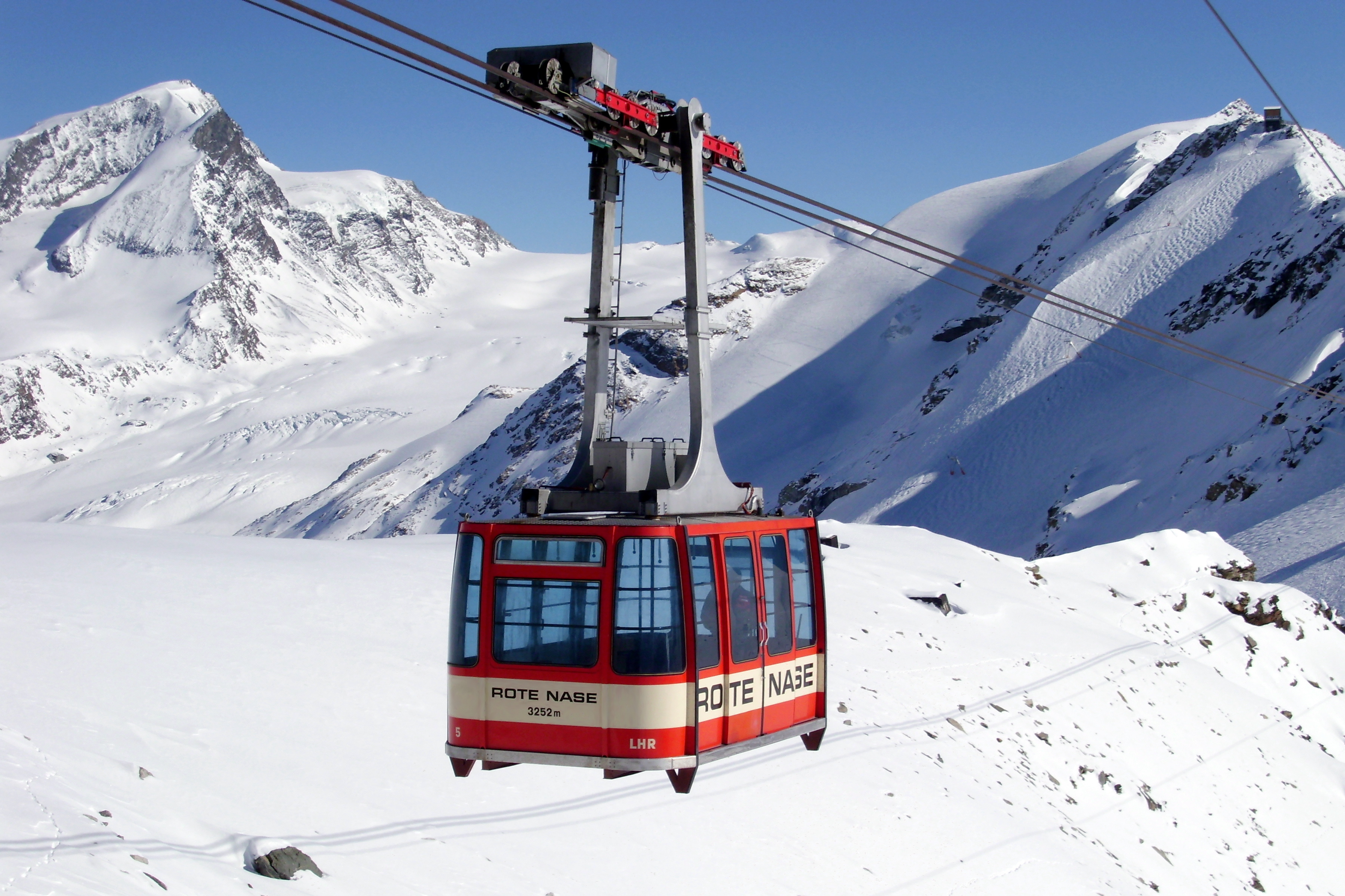 Aerial "Rote Nase", Zermatt